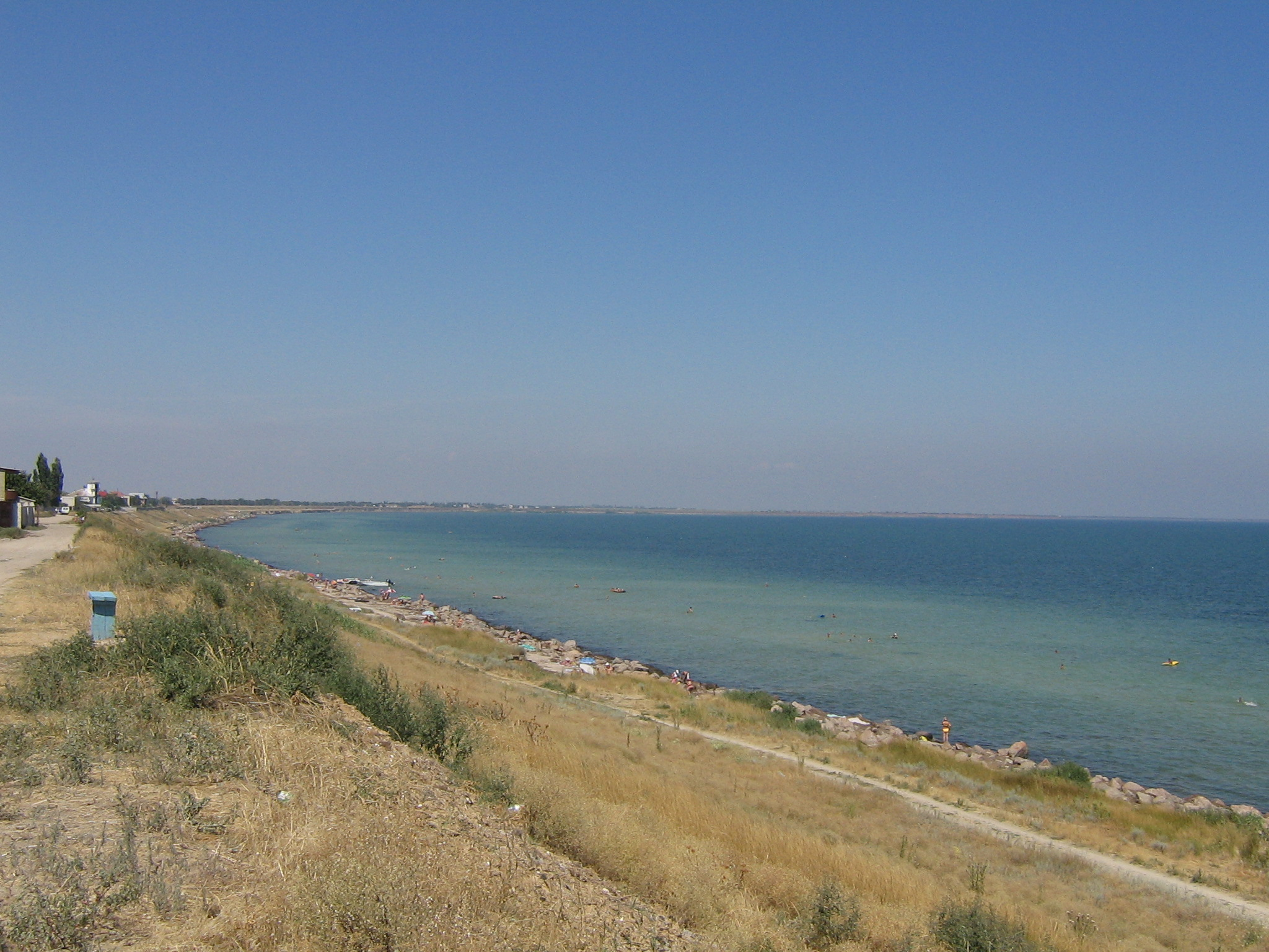 A beach of Henichesk; Henichesky Raion, Kherson Oblast, Ukraine